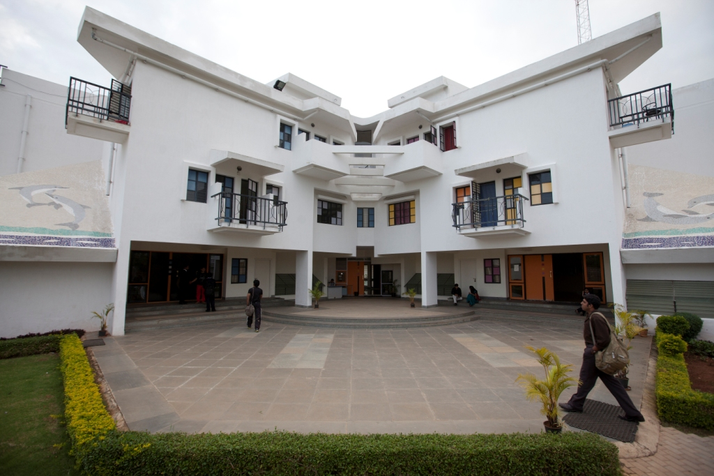 IFIM Residential Building